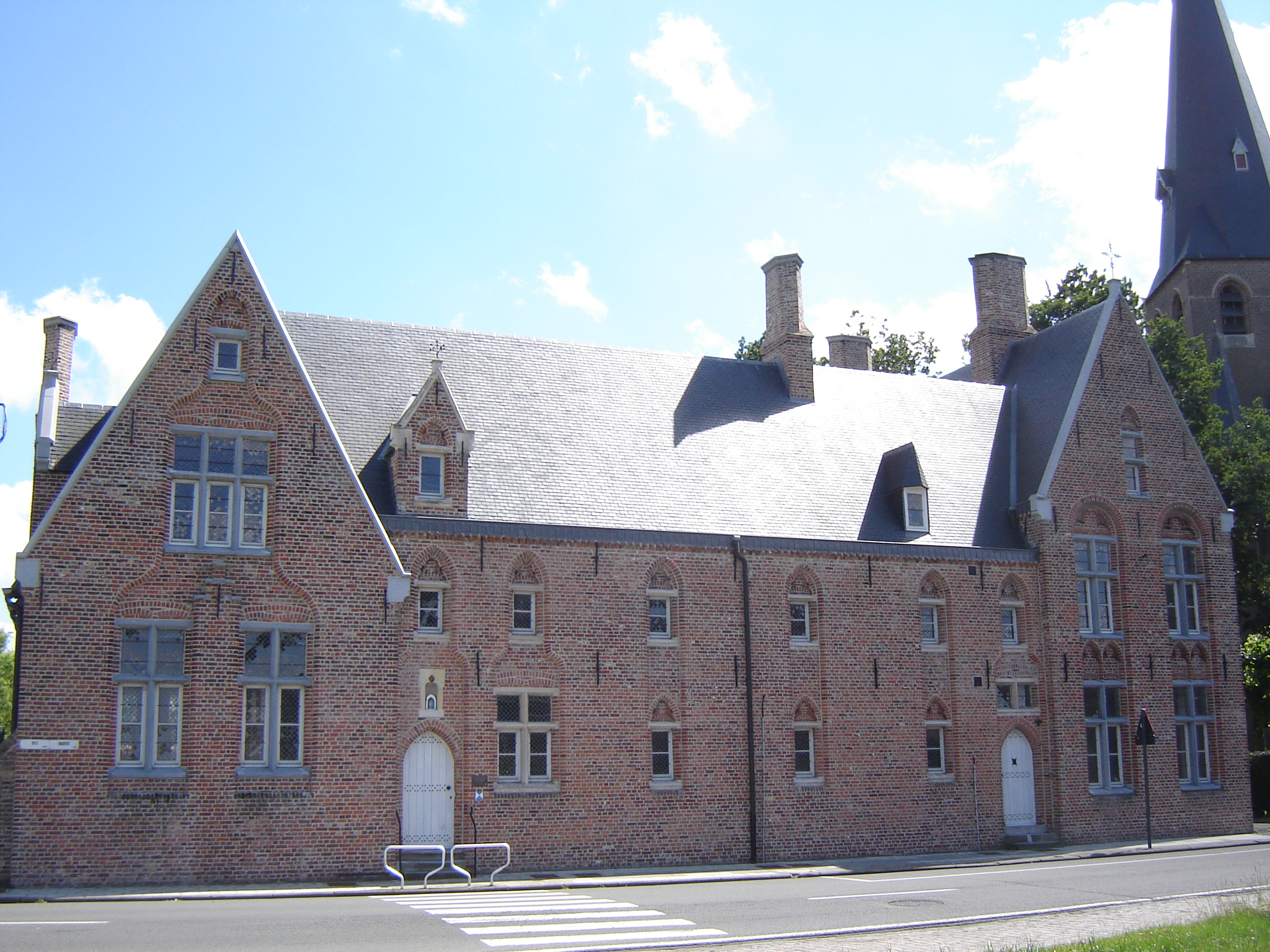 Neo-Gothic convent site in Vivenkapelle, arch. Jean-Baptiste Bethune. Vivenkapelle, Damme, West Flanders, Belgium.